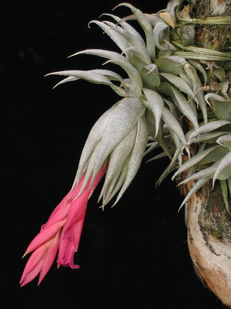 Tillandsia reclinata in cultivation at the Botanical Garden of Heidelberg, Germany.